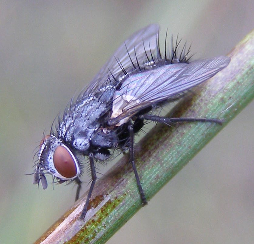 A Tachinid fly, a female of either Lydella stabulans or Lydella grisescens. Identified by Chris Raper and Theo Zeegers.